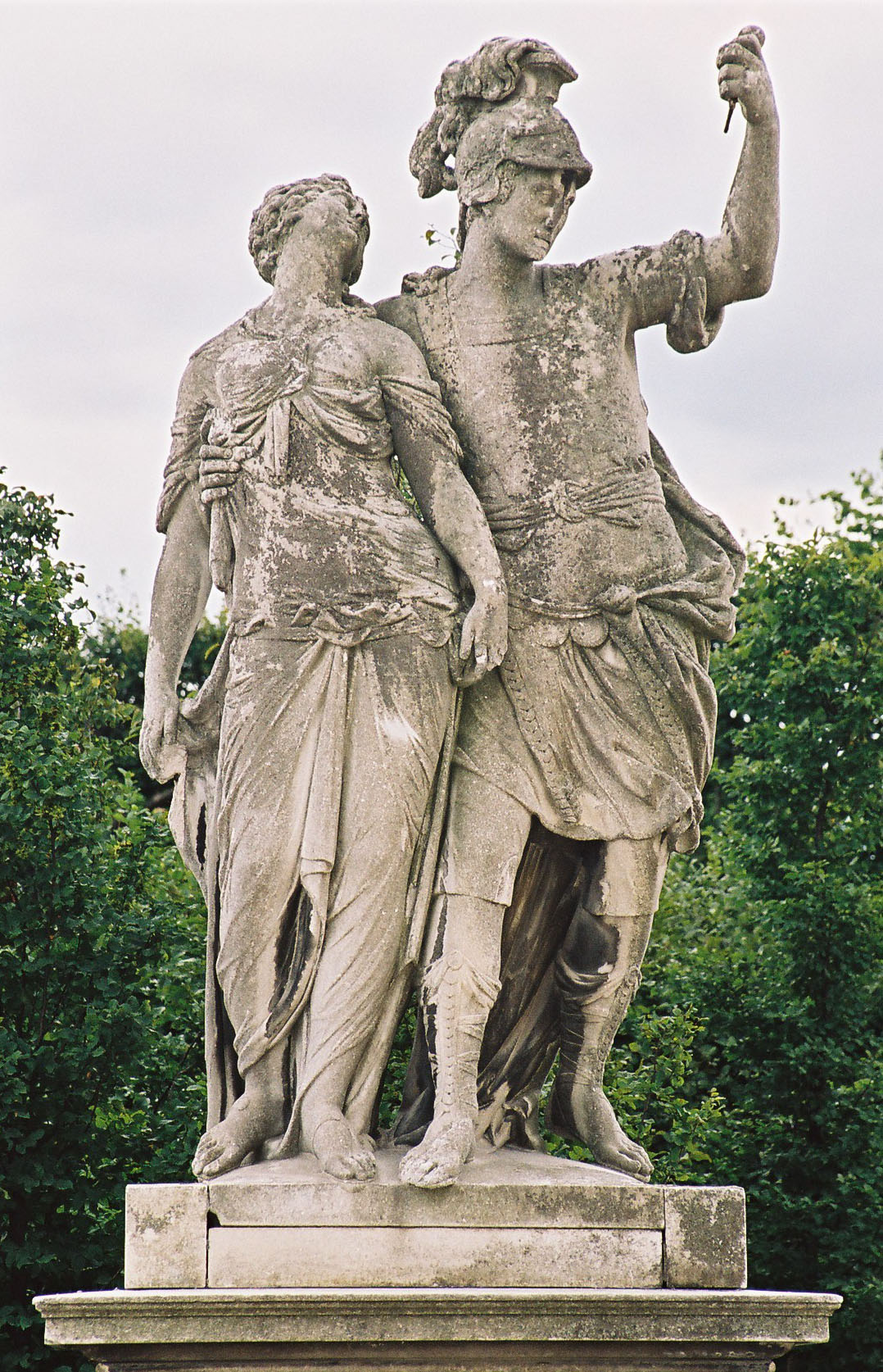 Vienna, Schönbrunn gardens, statue Junius Brutus, swearing revenge at Lucretia's corpse, by Ignaz Platzer